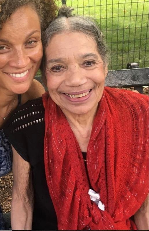 This is a personal picture of Raven Wilkinson and Calida Garcia Rawles enjoying each other's company while sitting on a park bench in New York City.